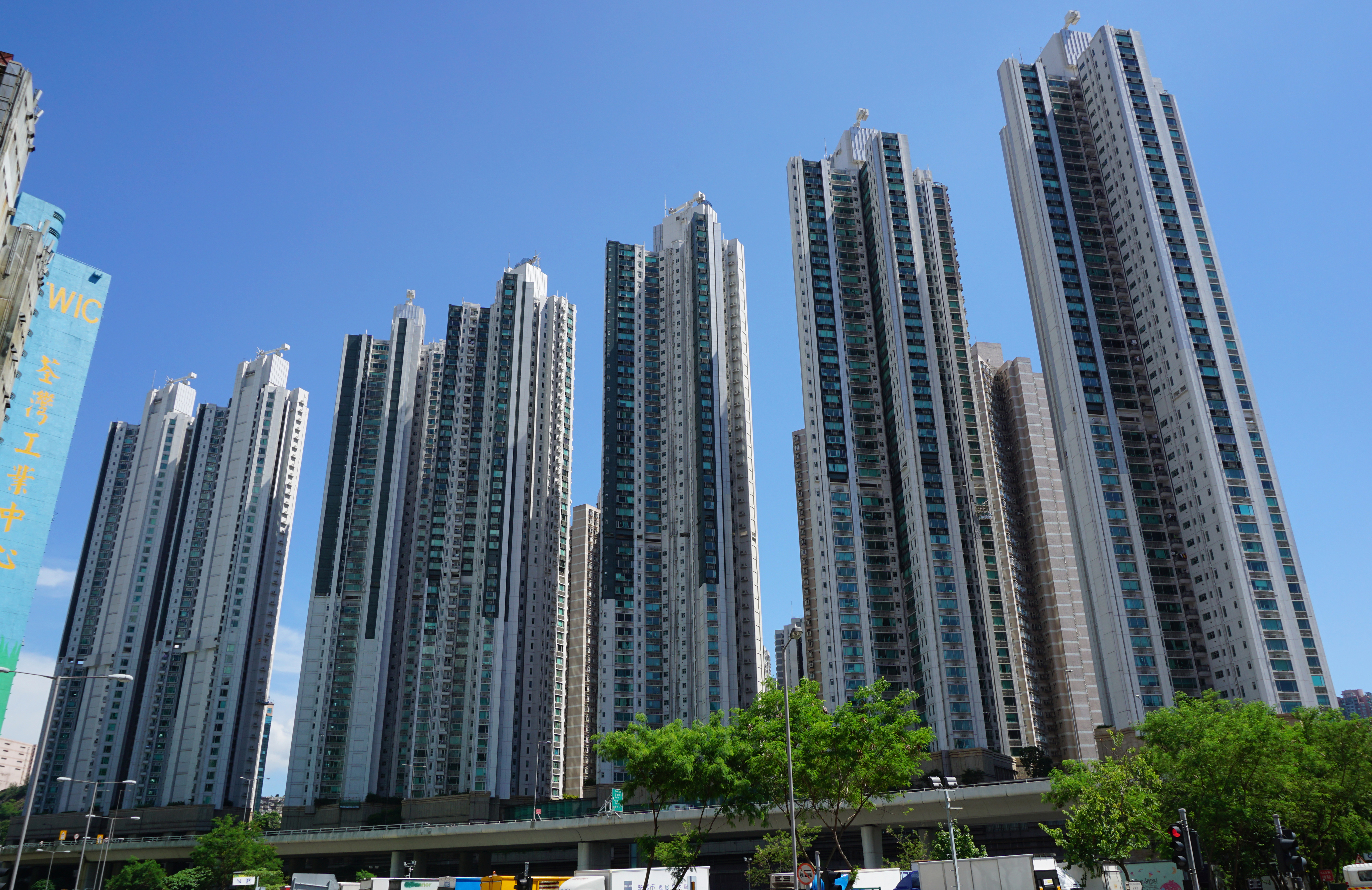 City Point in Tsuen Wan, Hong Kong.